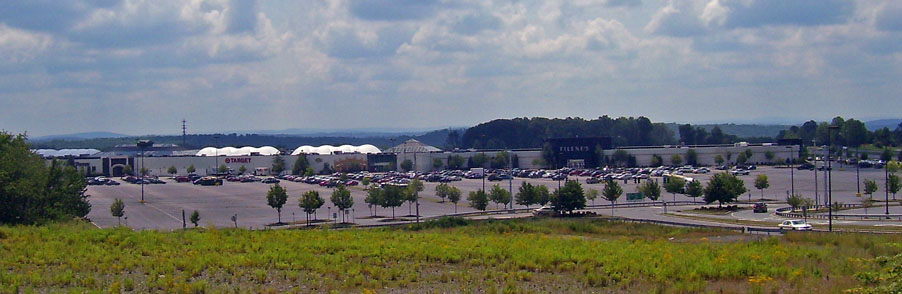 Photographed by Daniel Case 2006-07-19